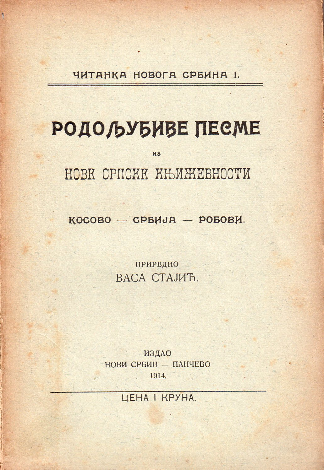 Cover of Čitanka Novoga Srbina, 1914, Pančevo, Serbia